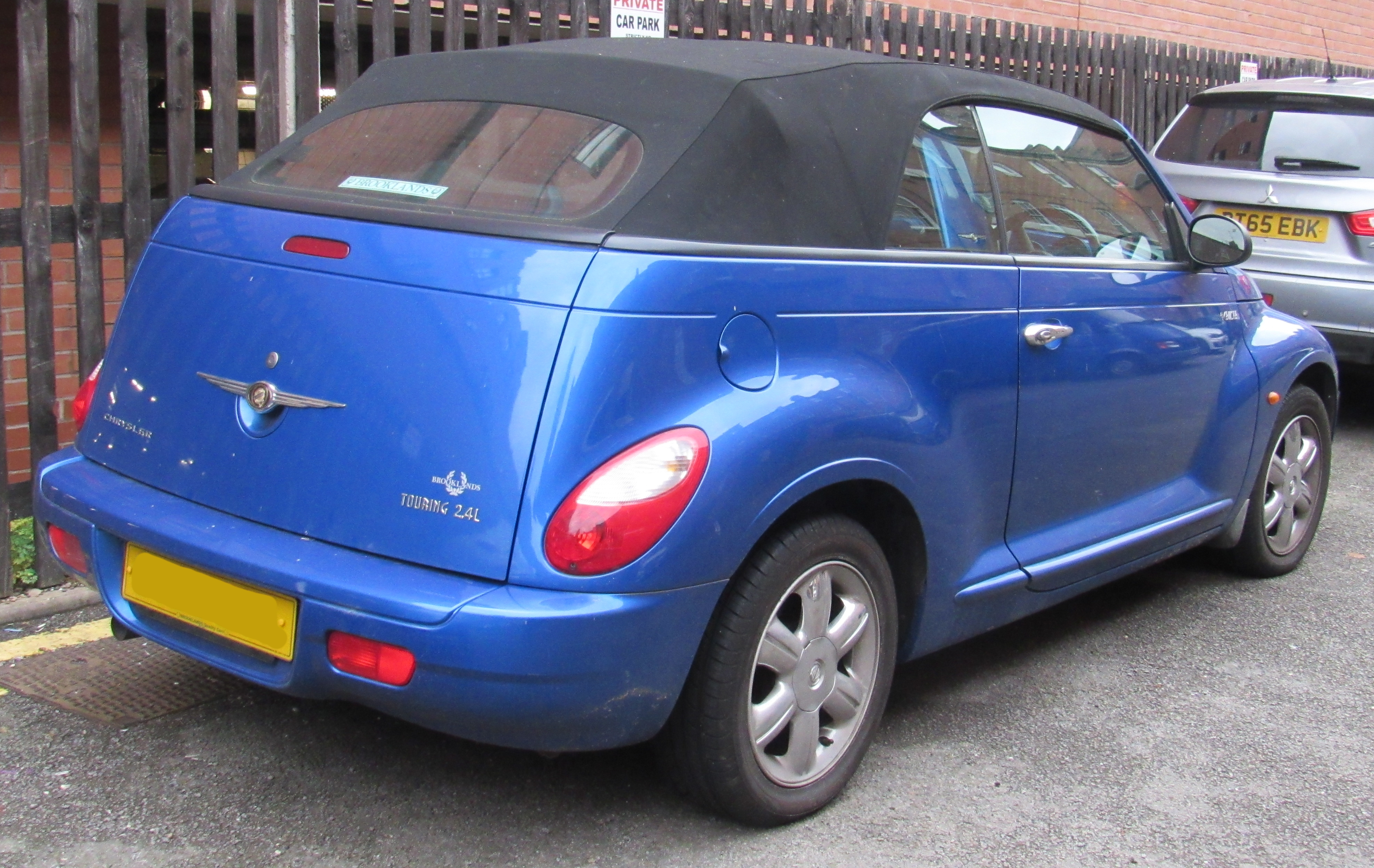 2006 Chrysler PT Cruiser Touring 2.4 Rear Taken in Leamington Spa